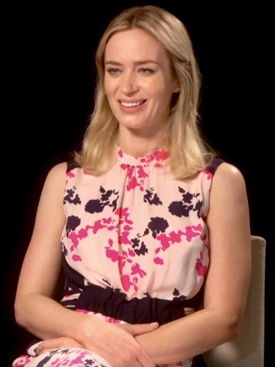 Emily Blunt at an event for A Quiet Place in 2018